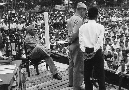 Honjo Incident